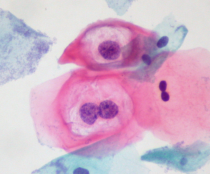 Low-grade squamous intraepithelial lesion, abbreviated LSIL, with HPV effect. LSIL doesn't get much better than this! 35-year-old woman with ASC-US Pap one month ago. This is follow-up. ThinPrep, 400X. See also File:ThinPrep Pap smear HPV.jpeg - Another example of LSIL with HPV changes. File:High-Grade SIL.jpg - High-grade squamous intraepithelial lesion (HSIL).